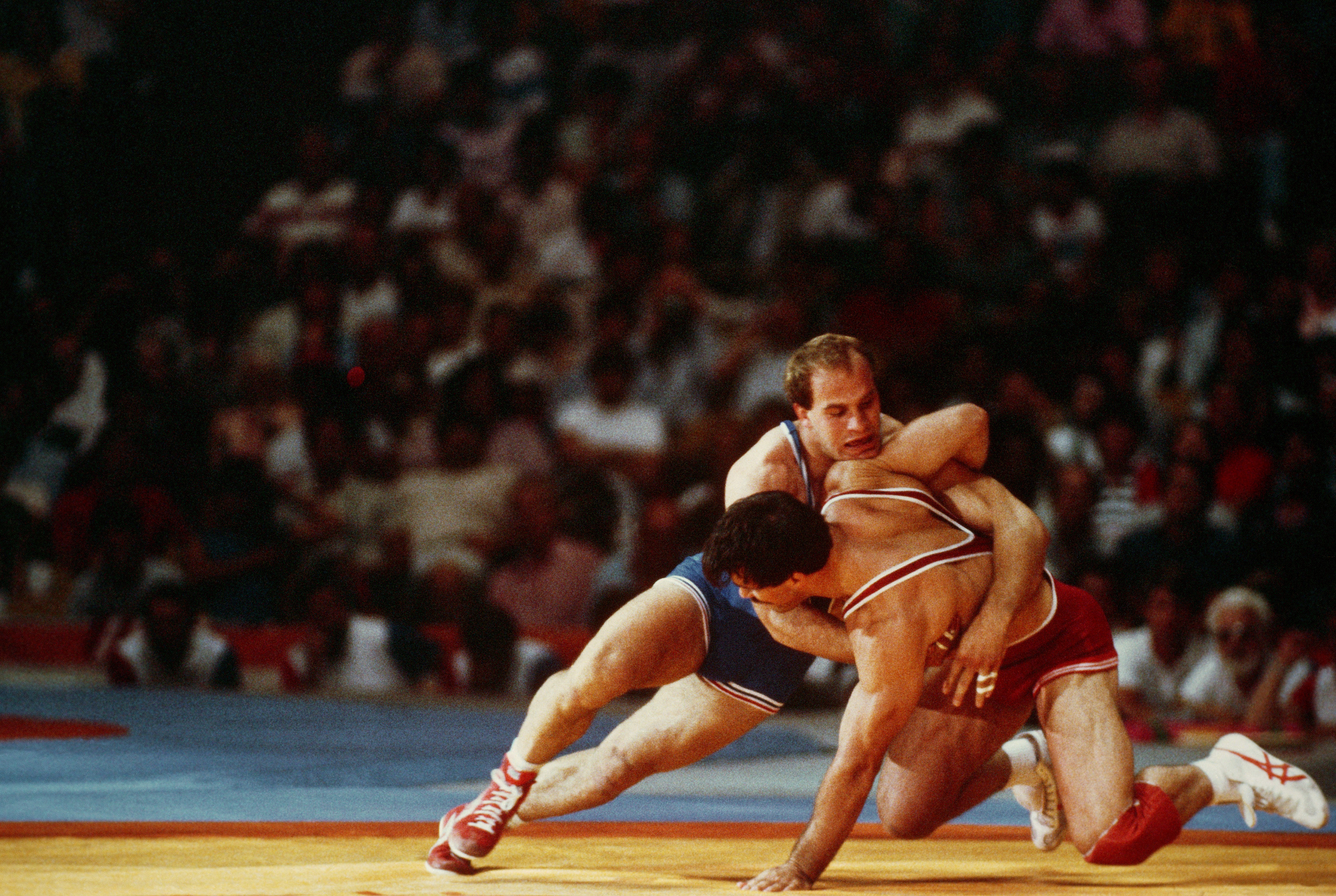 Army Second Lieutenant Ludwig D. Banach, in blue, competes in a freestyle wrestling match during the 1984 Summer Olympics. (Released to Public)